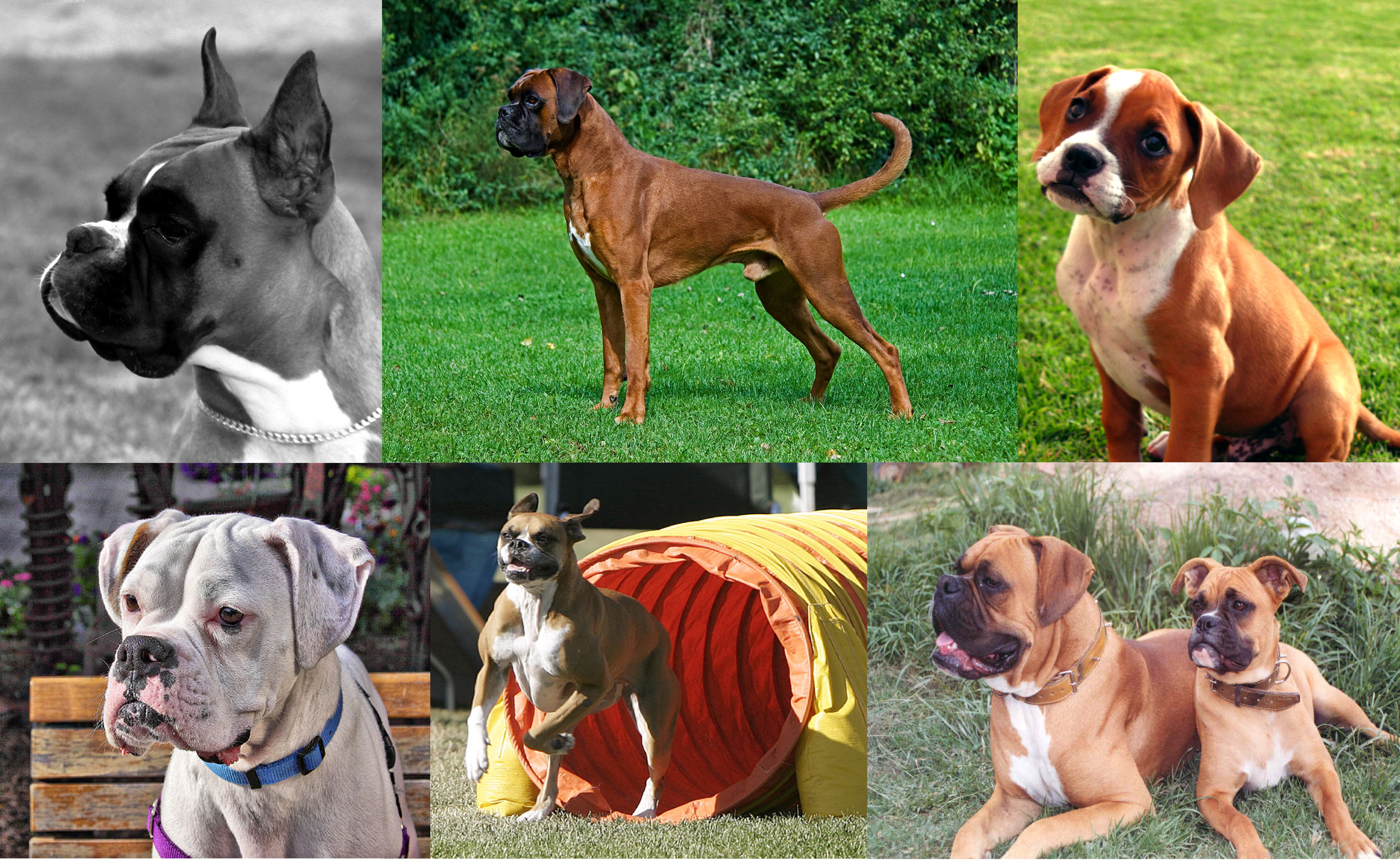 Compilation of the best pictures of boxers in Wikipedia Commons, based on: Rj_boxer.jpg Boxerdog.jpg Two boxer dogs (2004).jpg Boxer Bokser Cameron Box-Star.jpg Boxer agility tunnel wb.jpg Boxer puppy fawn.jpg